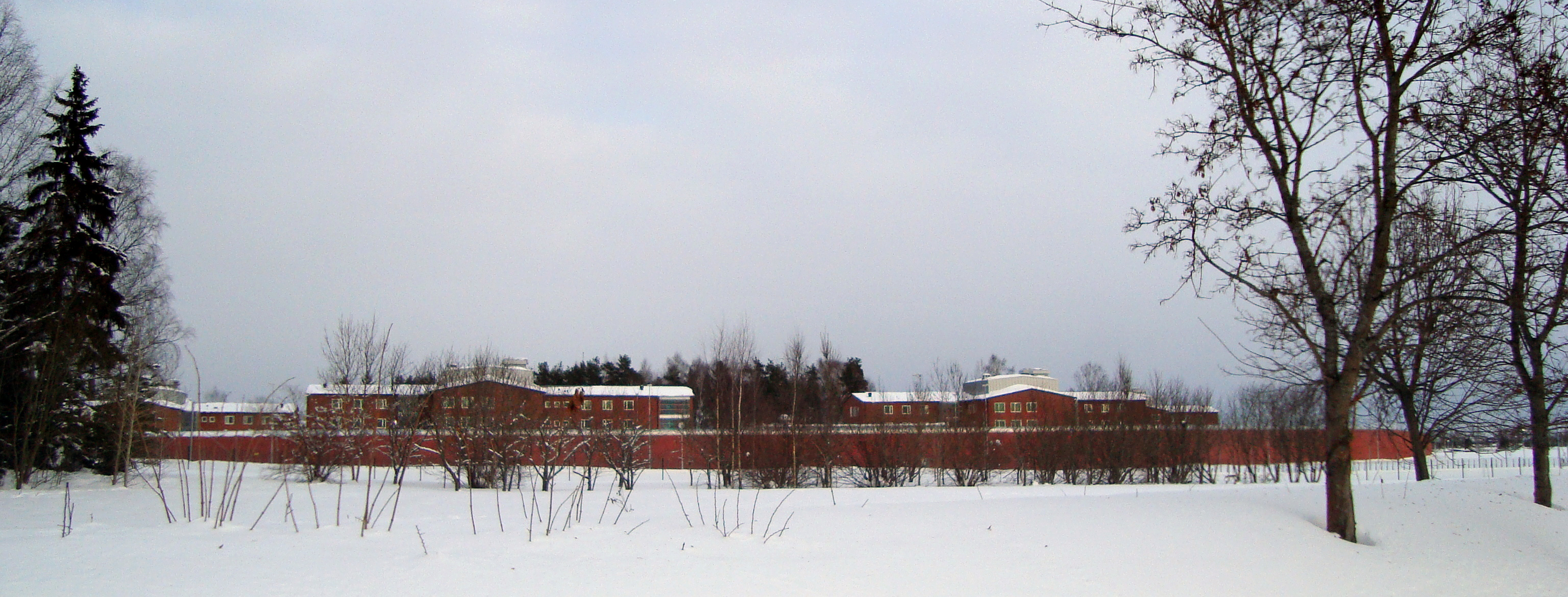 Salberga prison, Sala, Sweden